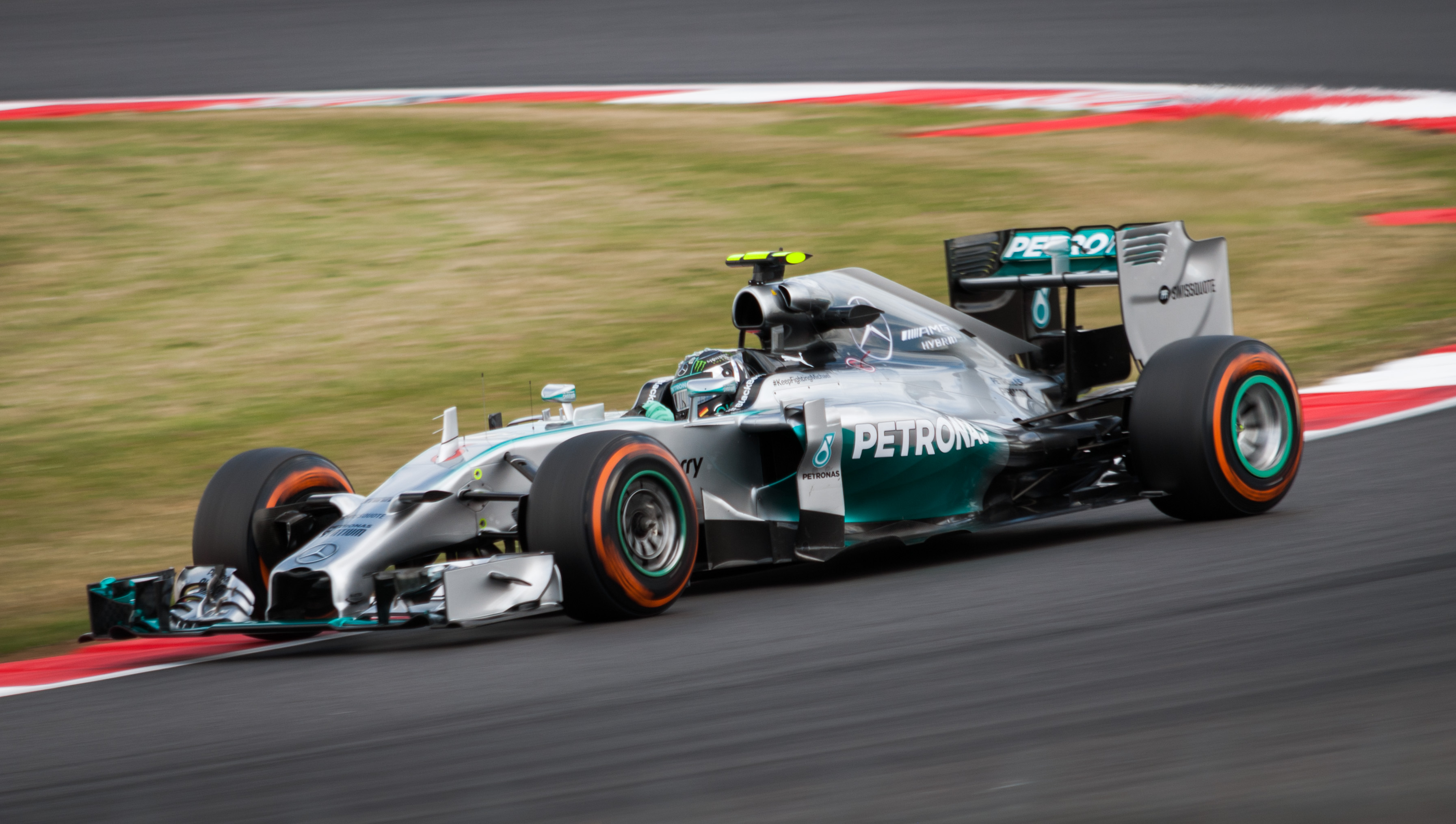 Nico Rosberg driving in the free practice sessions of the 2014 British Grand Prix